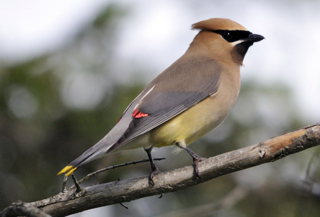 Photo of the Week - 07/06/11 Cedar Waxwing photographed at Hawley Bog, north of Hawley, MA, on 4 July 2011. Credit: Bill Thompson/USFWS